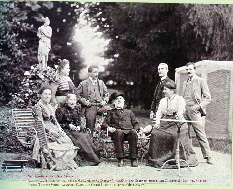 Verdi with friends & family at Sant'Agata